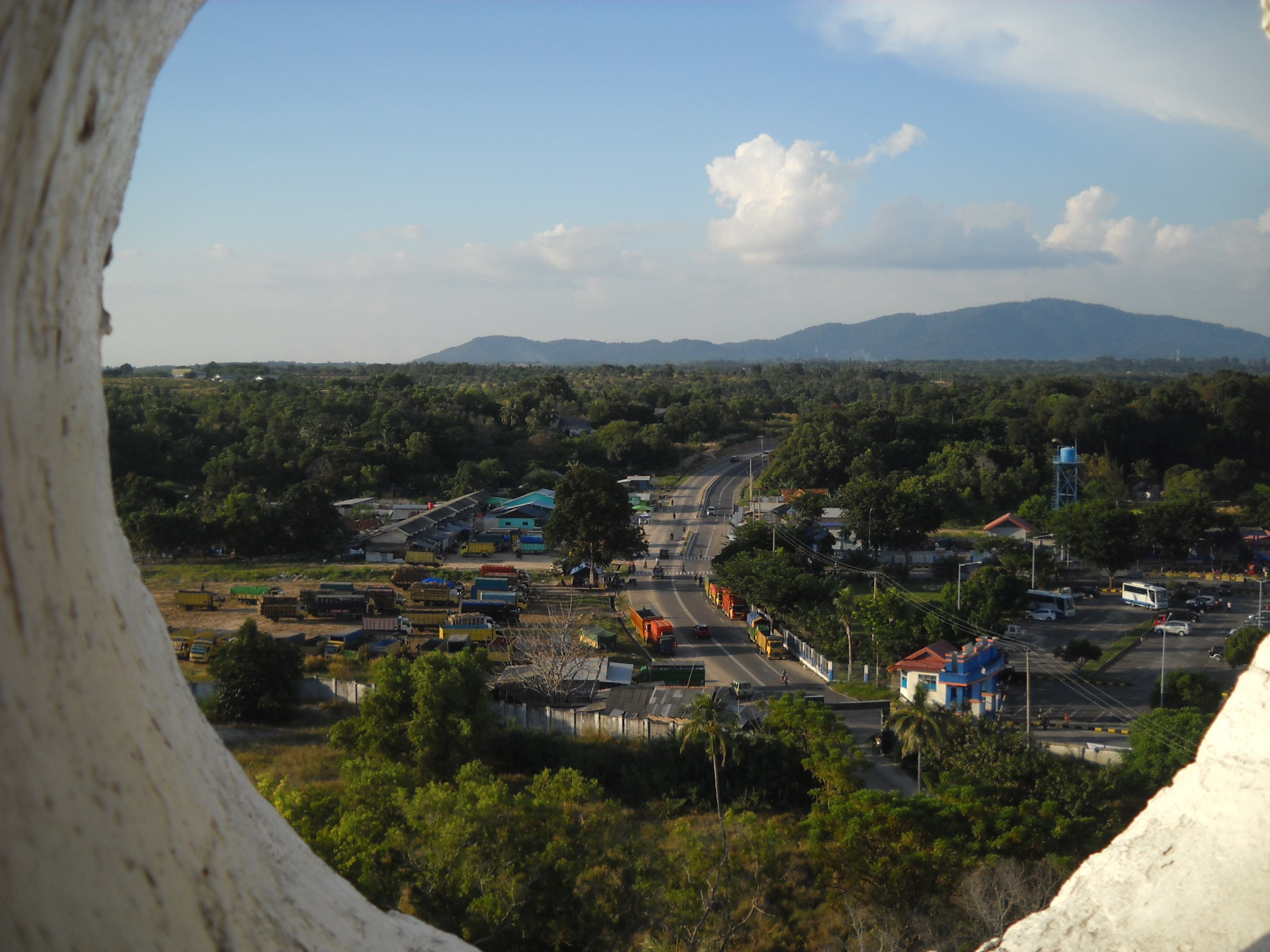 Mentok City from Tanjung Kalian Lighthouse